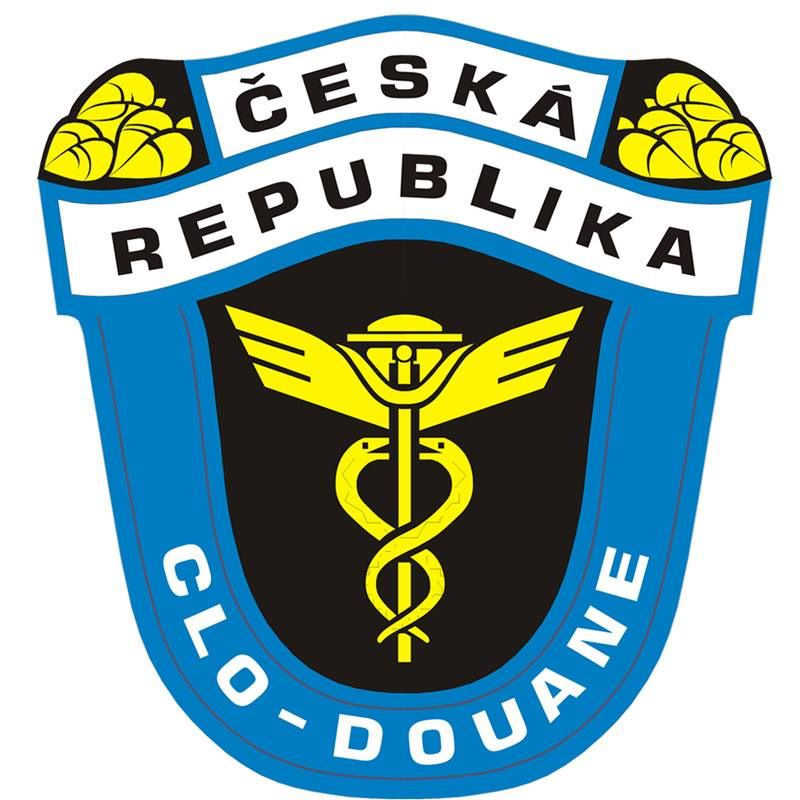 Seal of the Customs Administration of the Czech Republic